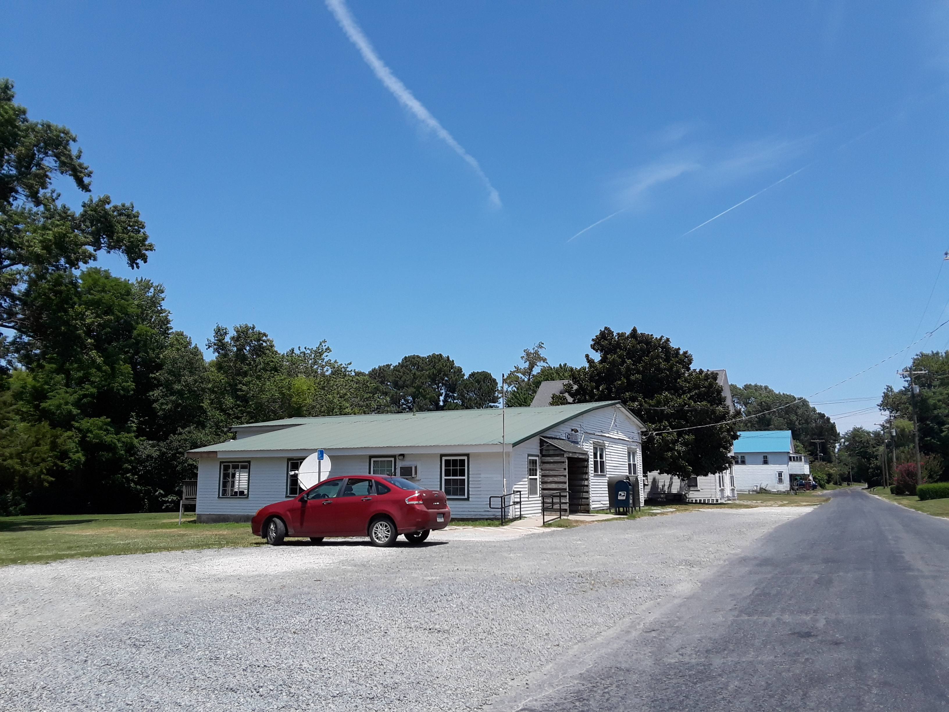 Taken on a visit to the Eastern Shore of Virginia, July 2018